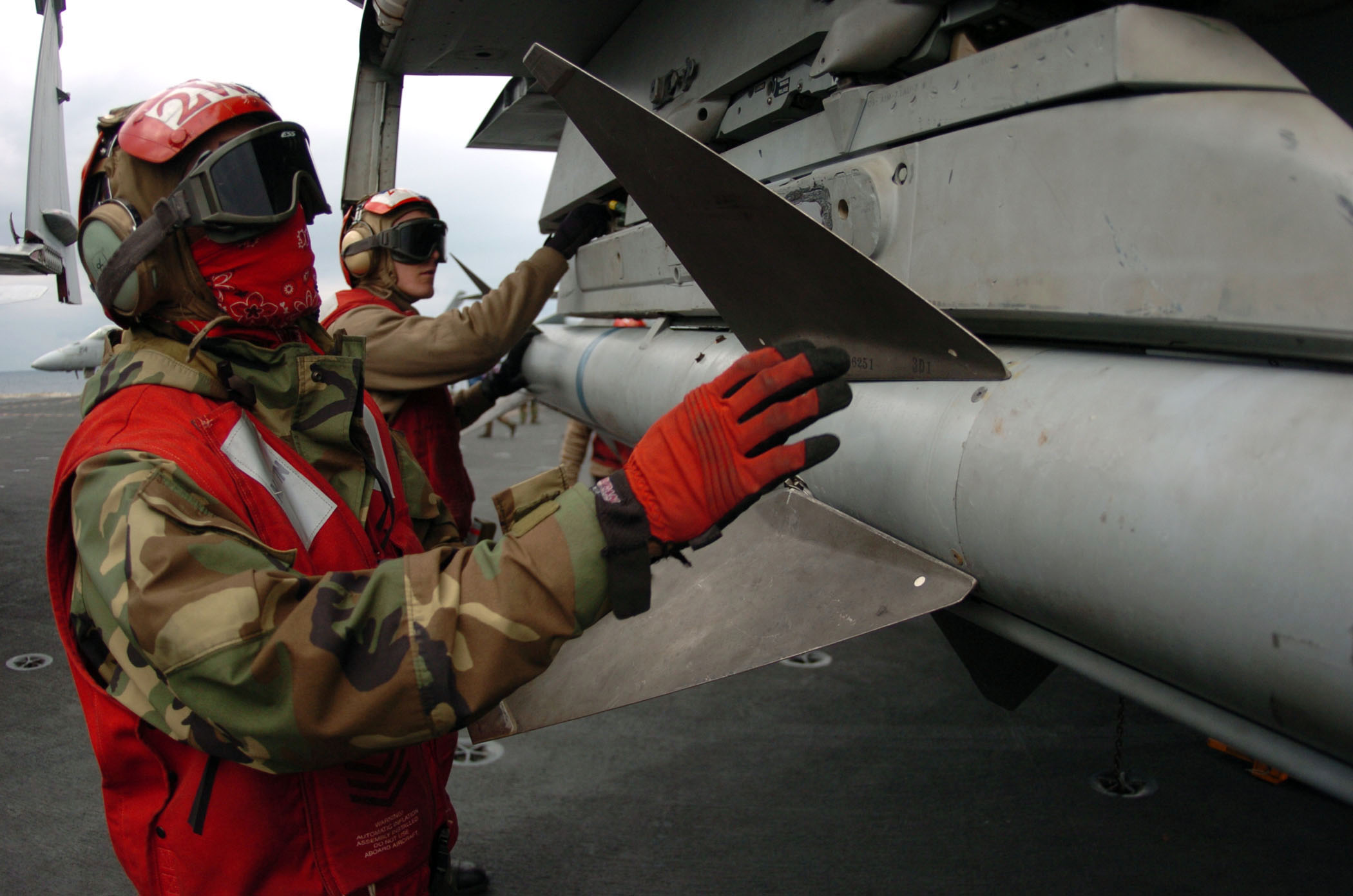 Pacific Ocean (Nov. 13, 2005) - Aviation Ordnancemen assigned to the "Royal Maces" of Strike Fighter Squadron 27 (VFA-27), inspect an inert AIM-7 Sparrow air-to-air missile, loaded on an F/A-18E Super Hornet, before launch from USS Kitty Hawk (CV 63). Kitty Hawk and embarked Carrier Air Wing Five (CVW-5) are currently conducting the bilateral Annual Exercise 2005 (ANNUALEX) with Japan Maritime Self-Defense Force. ANNUALEX focuses on improving the military-to-military relationship between the U.S. and Japan. The purpose of ANNUALEX is to improve bilateral interoperability, defend Japan against maritime threats and to improve capability for surface warfare, air defense and undersea warfare. U.S. Navy photo by Photographer's Mate Airman Jonathan Chandler (RELEASED)